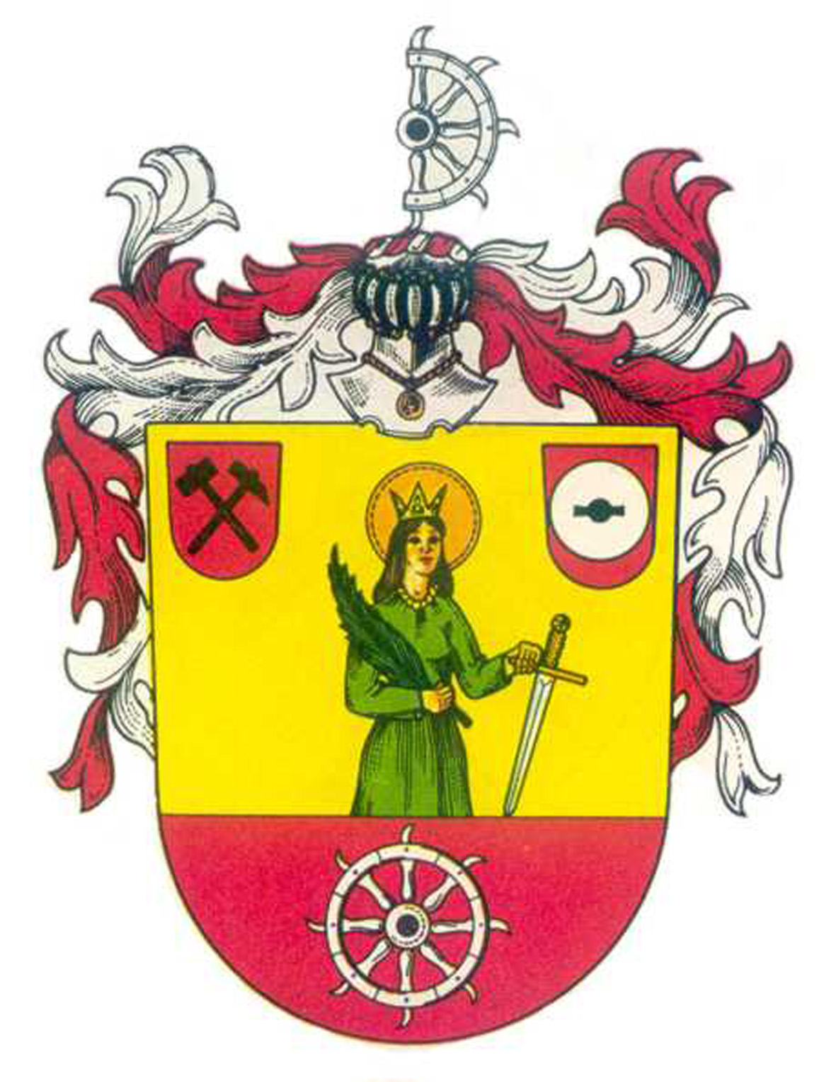 Municipal coat of arms of Hora Svaté Kateřiny town, Most District, Czech Republic.